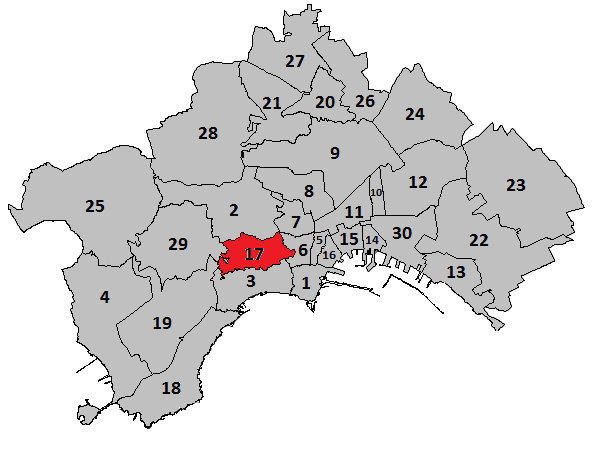 Vomero in Naples